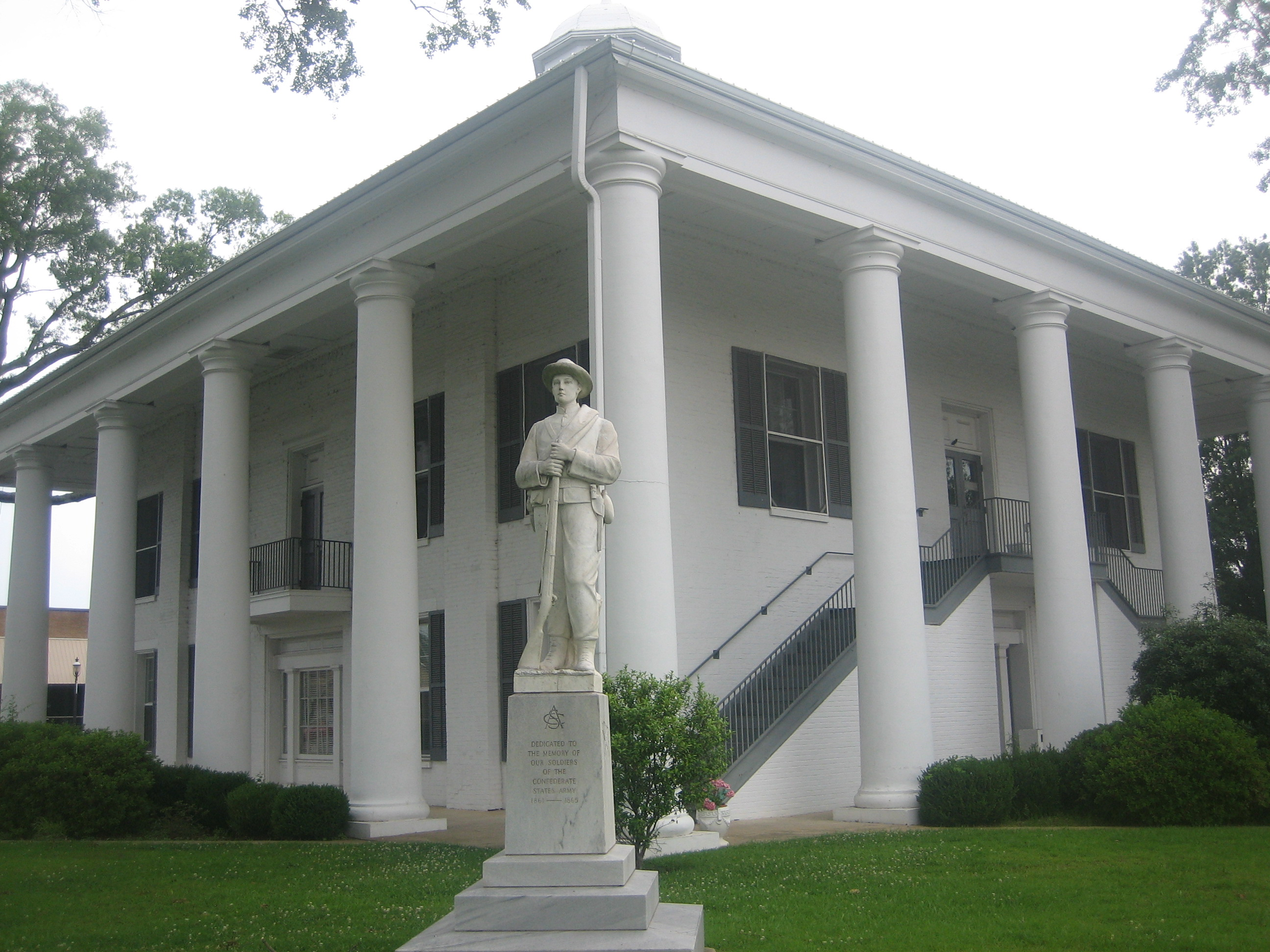 I took photo on May 26, 2009.Billy Hathorn (talk) 21:44, 29 May 2009 (UTC)